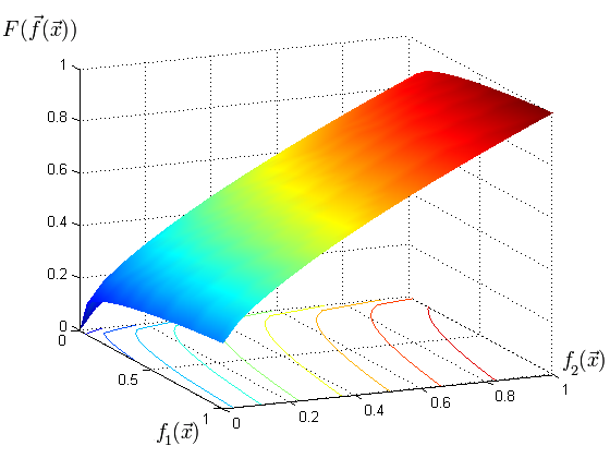 General utility for Desicion Making. Entrophy one.